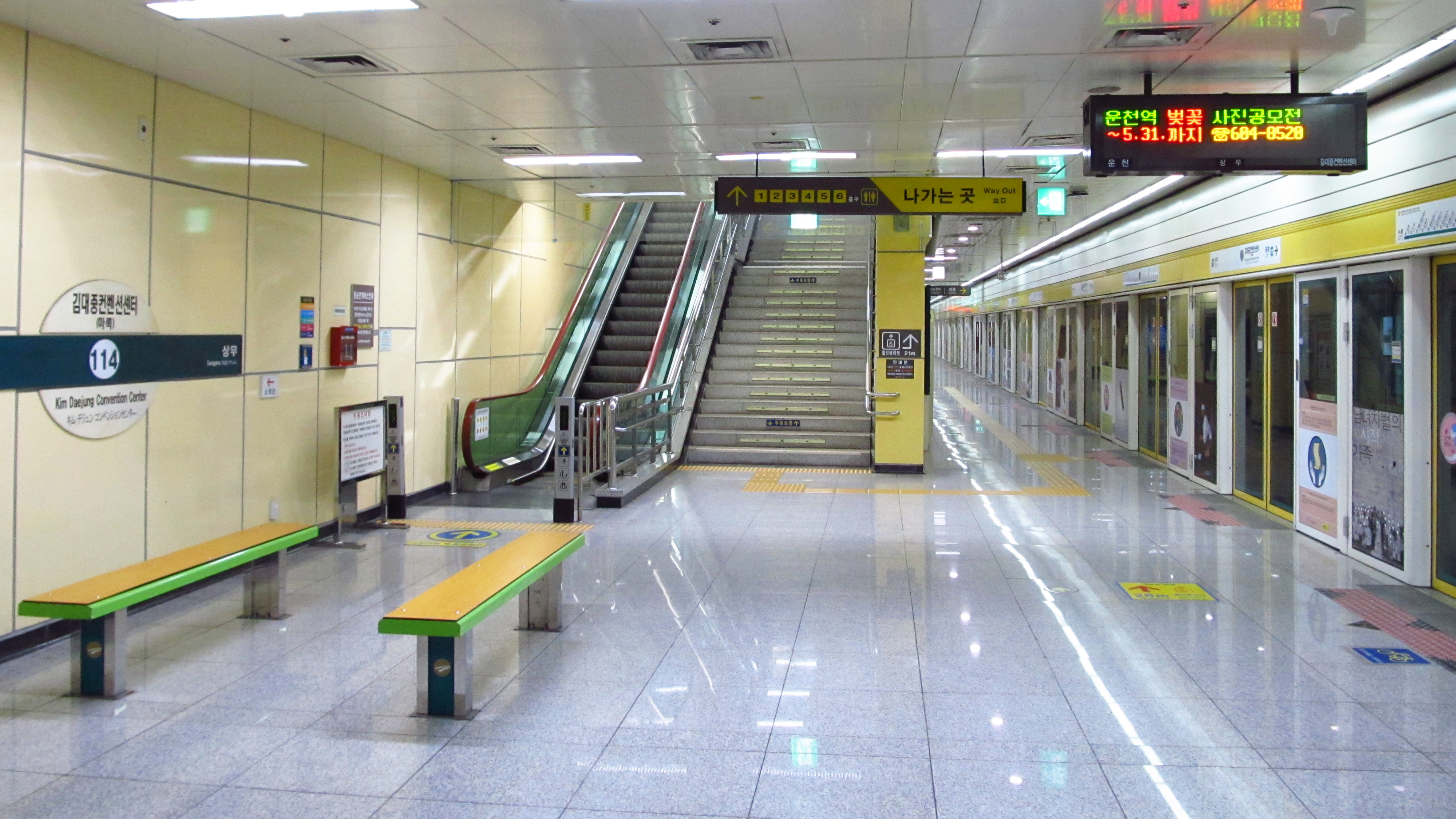 The platform at Kim Daejung Convention Center Station on Gwangju Metro Line 1 in Seo-gu, Gwangju, Republic of Korea(South Korea)